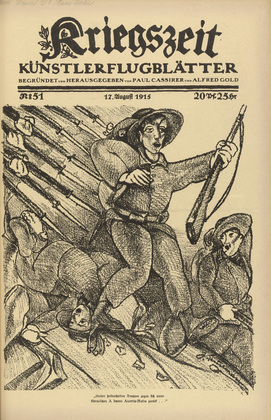 Our heroic troops retreated Jozsef Arpad Murmann